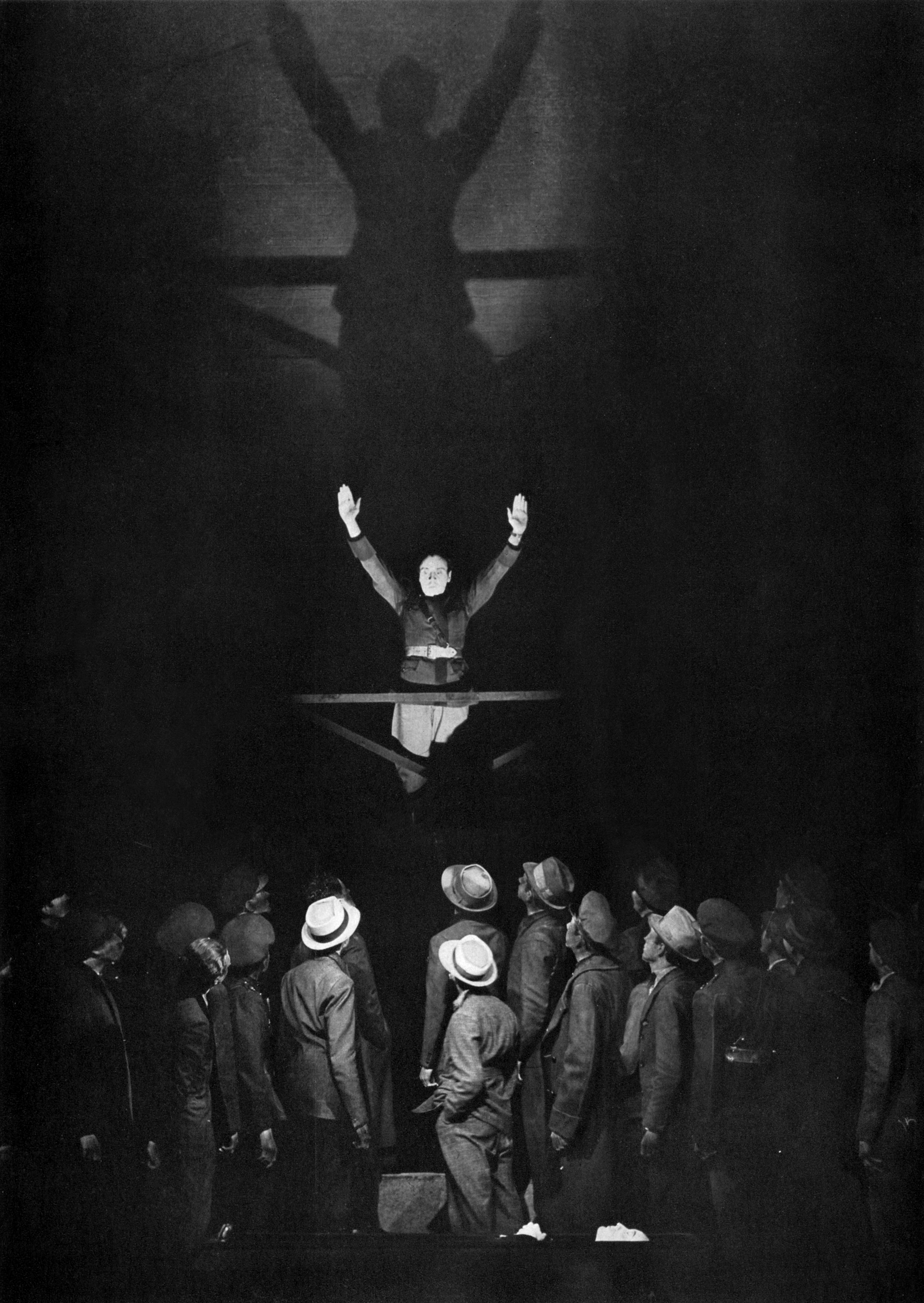 Promotional photograph of the Mercury Theatre production of Caesar, featuring George Coulouis (center) as Marc Antony Caption (page 57) reads as follows:"Friends, Romans, Countrymen ..." George Coulouris, as Marc Antony, addresses the crowd in the Mercury Theatre's production of Julius Caesar.